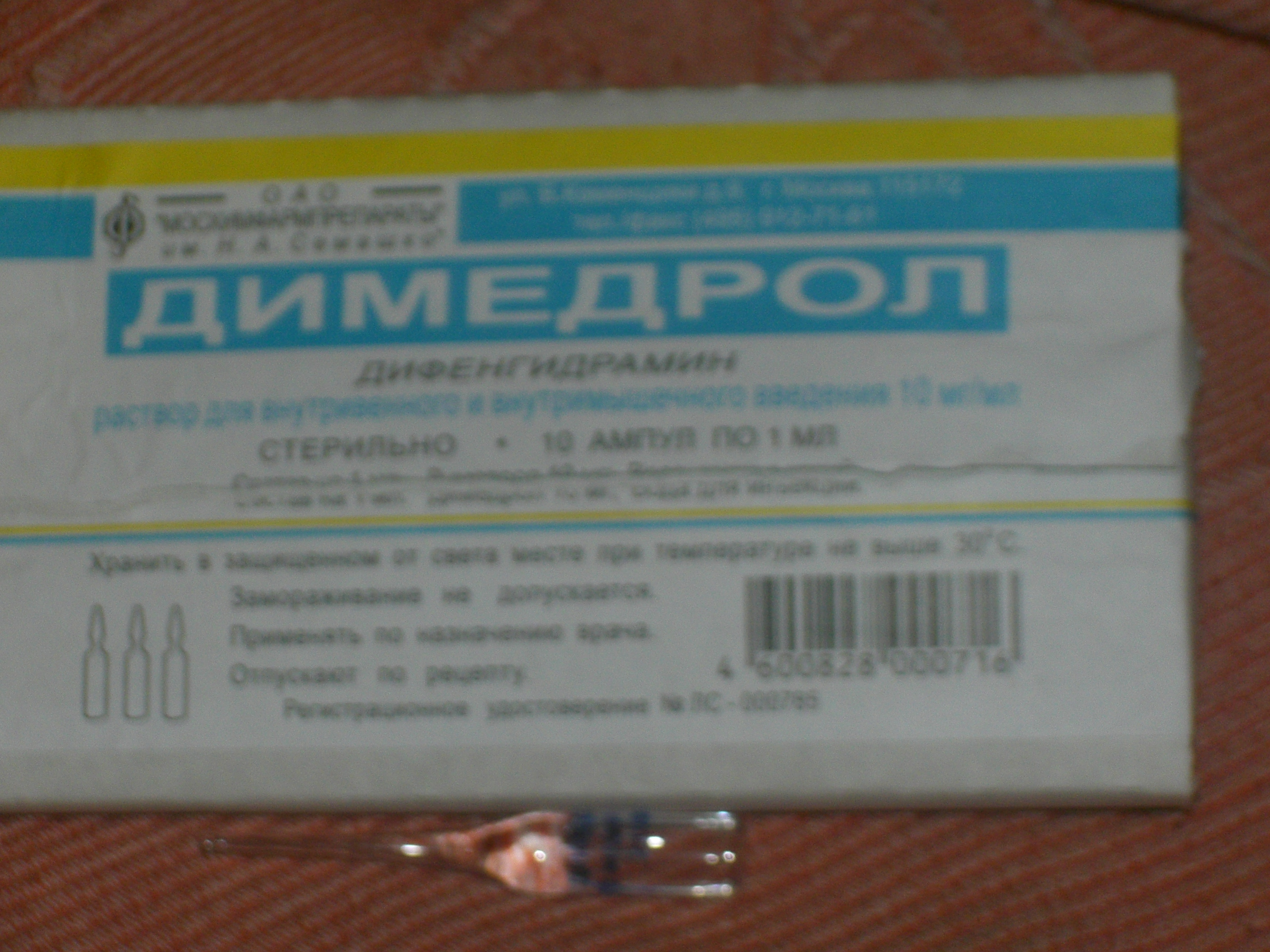 Pack of glass vials with diphenhydramine 1% solution (10 mg/ml) for intravenous and intramuscular injection, brand name Dimedrol.